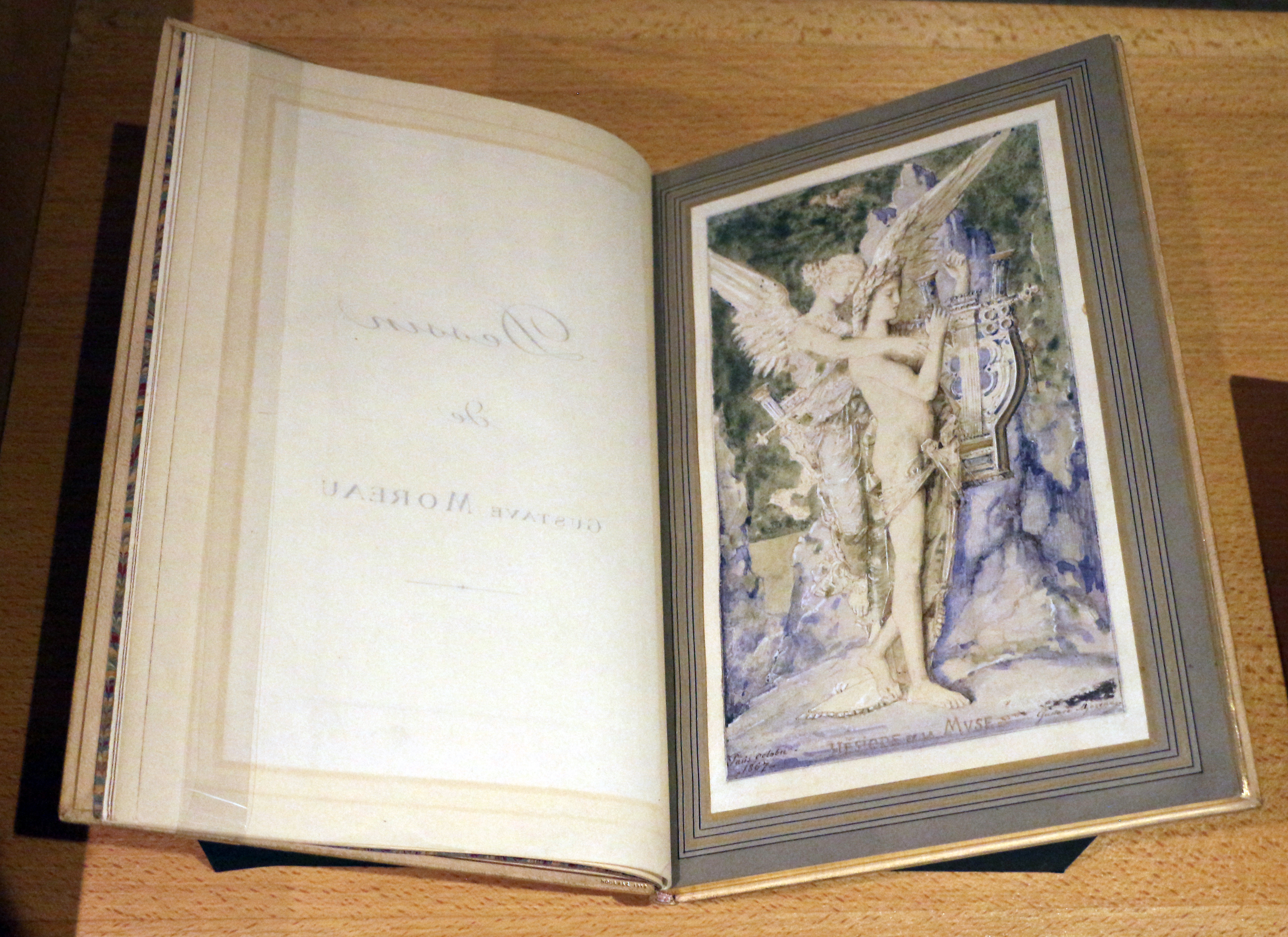 Calouste Gulbenkian Museum